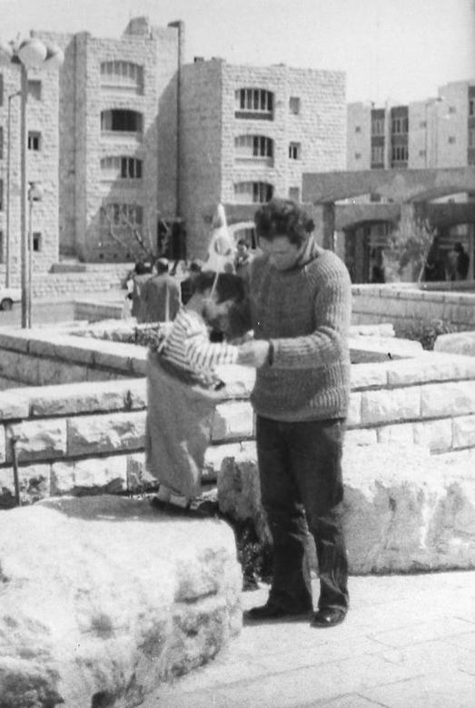 The park on Maavar HaMitle Street, Jerusalem, Purim holiday, 1974.